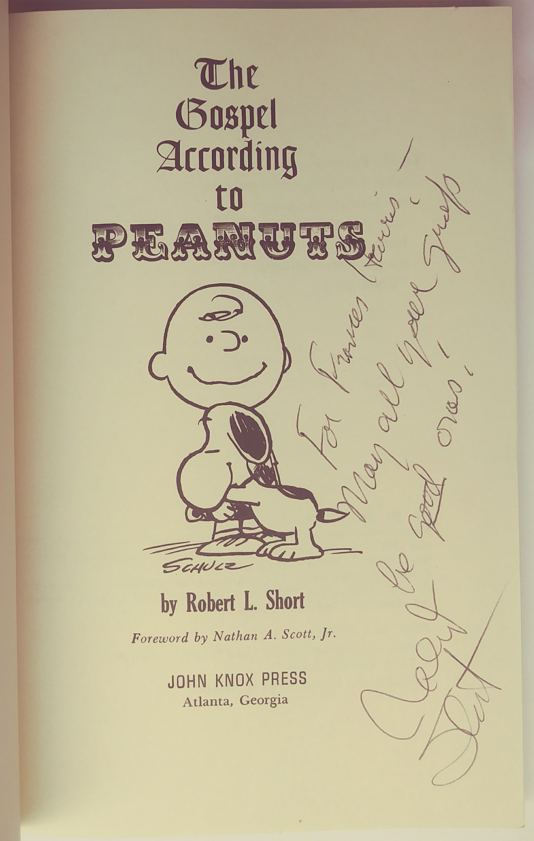 Inscription by Robert L. Short in a copy of his book The Gospel According to Peanuts: "For Frances Harris- May all your griefs be good ones! Robert Short"